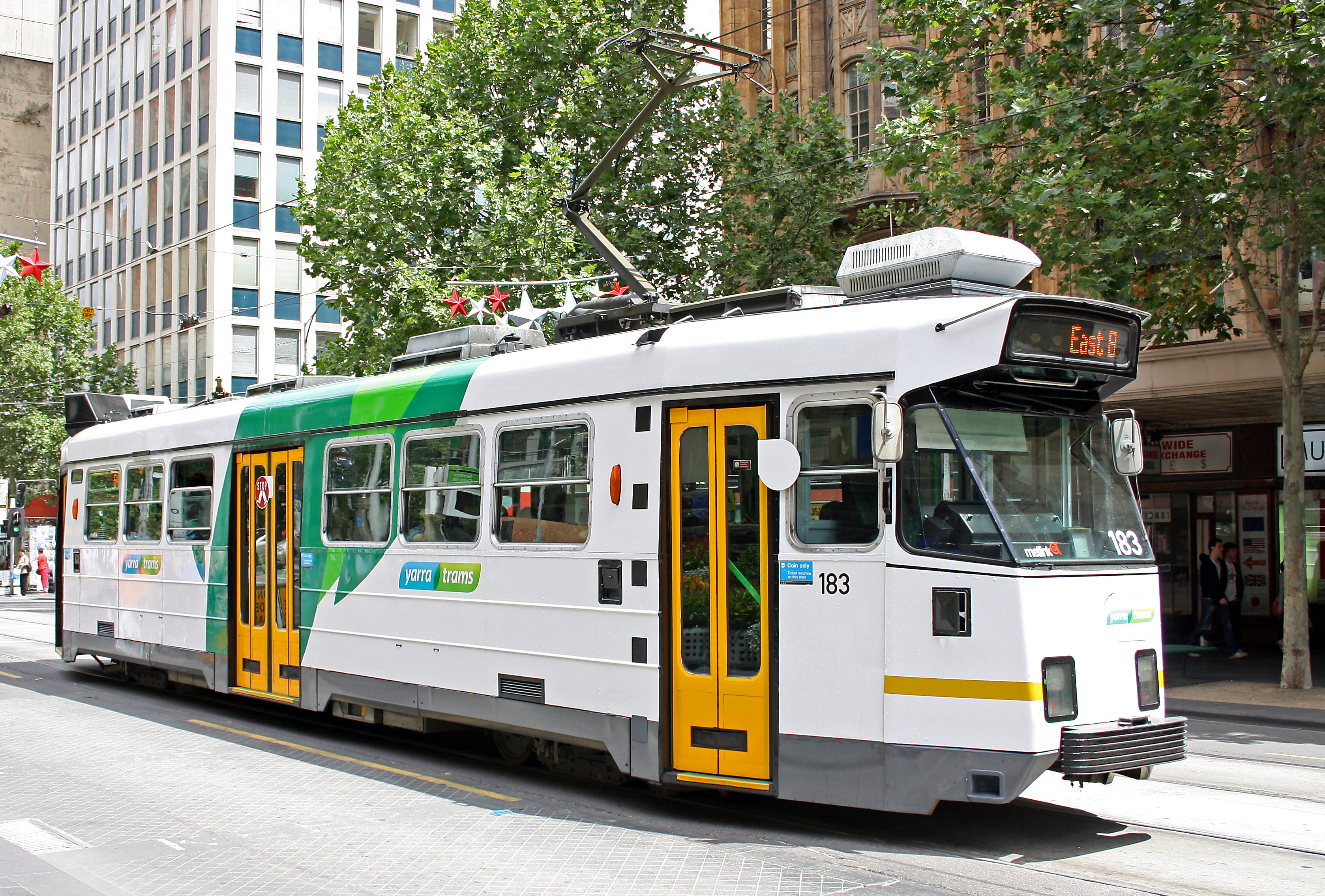 Z3 class tram 183 in the 2009 version of the Yarra Trams livery